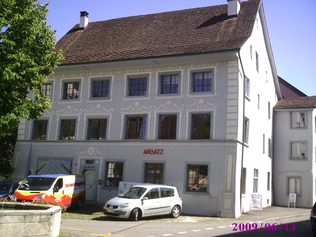 Castel Sant'Angelo exhibition hall Zurzach